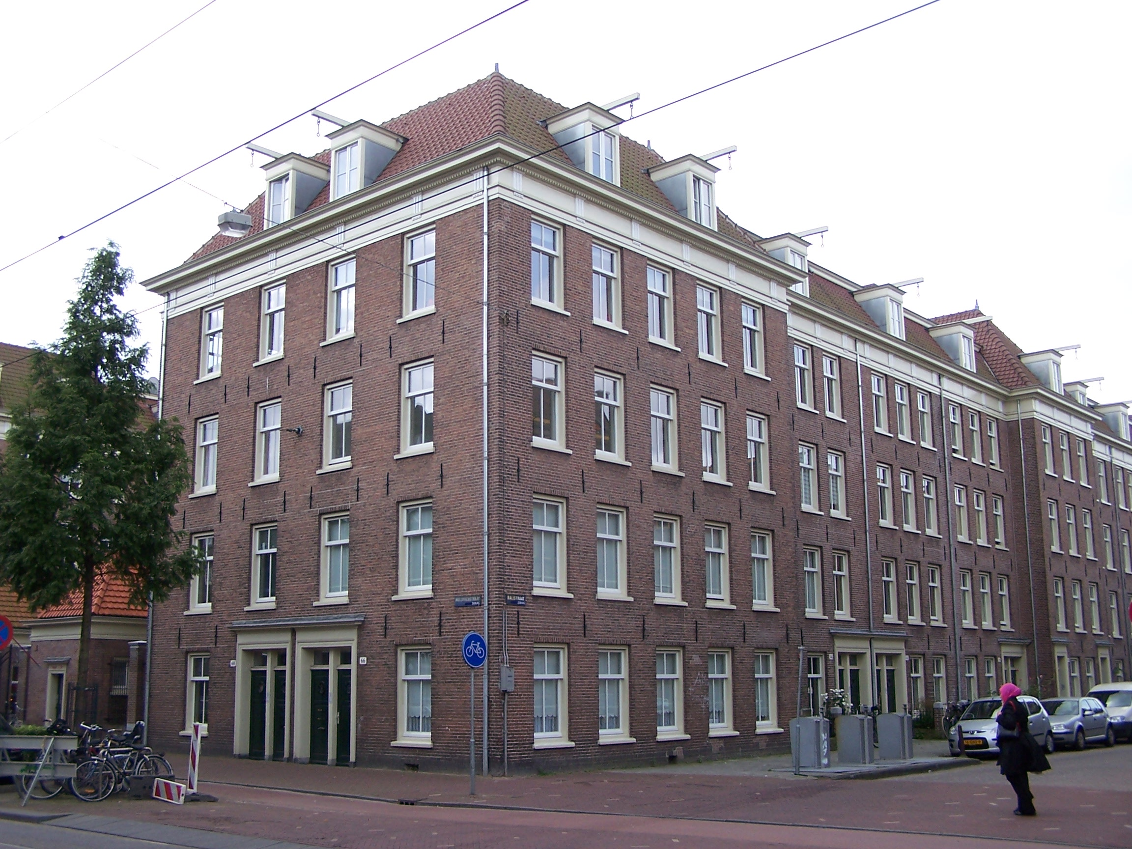 Molukkenstraat 66 & 68 (crossing with Balistraat), social housing dating back to 1911-1912, architect Jan Ernst van der Pek